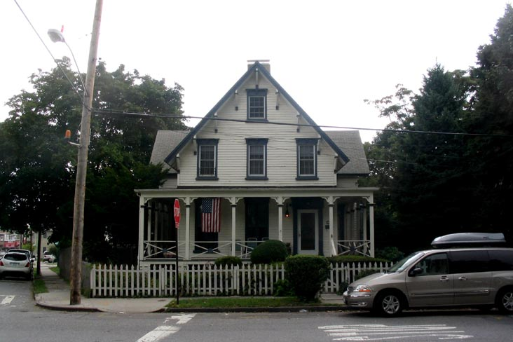 Looking east at 121 Heberton Avenue, southeast corner of Bennet Street, in Port Richmond.